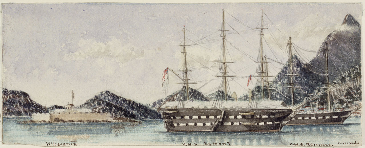 Villegagnon HMS 'Egmont' HMS 'Corcavada' A view of Guanabara Bay, in Rio de Janeiro, Brazil, with, to the left, the Fort of "Island of Villagnanon" and, to the right, the Corcovado (Corcovada) peak. Measurementsː Mount: 112 mm x 288 mm